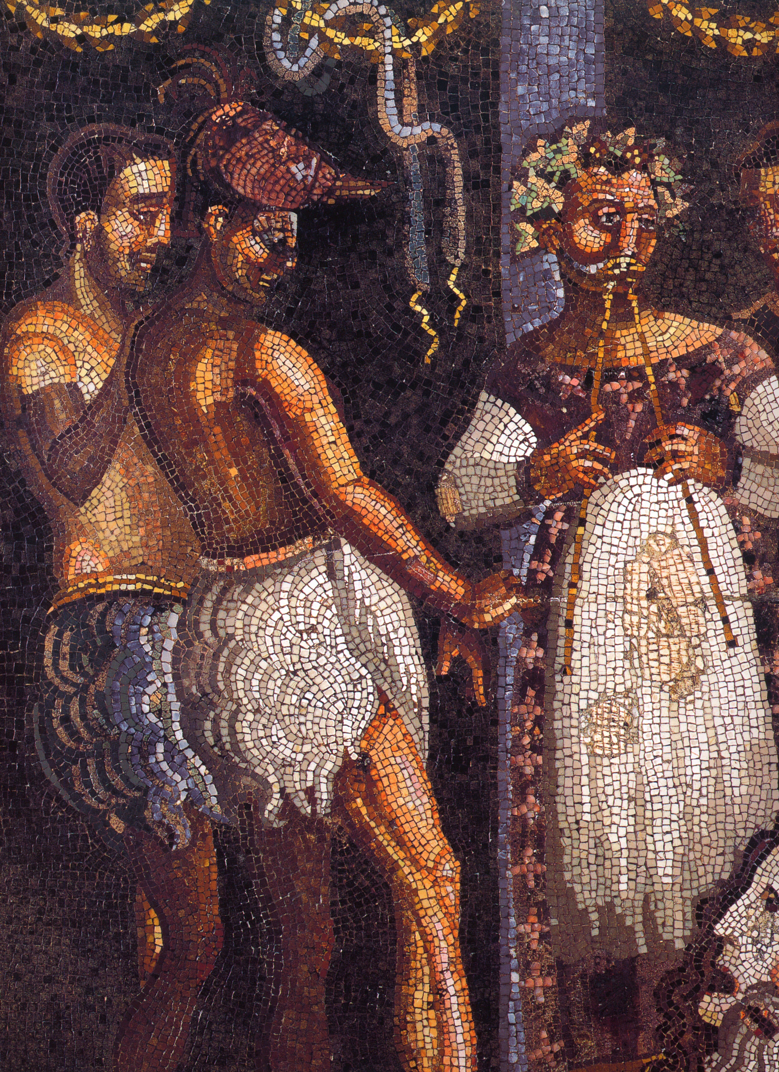 Theatrical scene with flute player and actors wearing goat skin costumes. Roman mosaic from the tablinum Casa del Poeta tragico (VI 8, 3-5) in Pompeii. Museo Archeologico Nazionale (Naples).